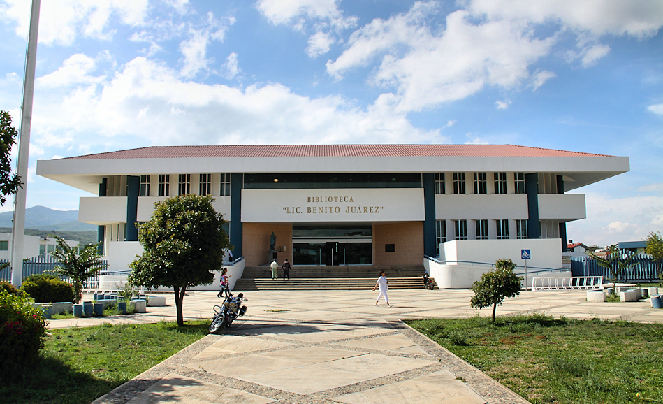 Benito Juarez library on the campus of the Universidad Autónoma Benito Juárez de Oaxaca in Oaxaca, Mexico.